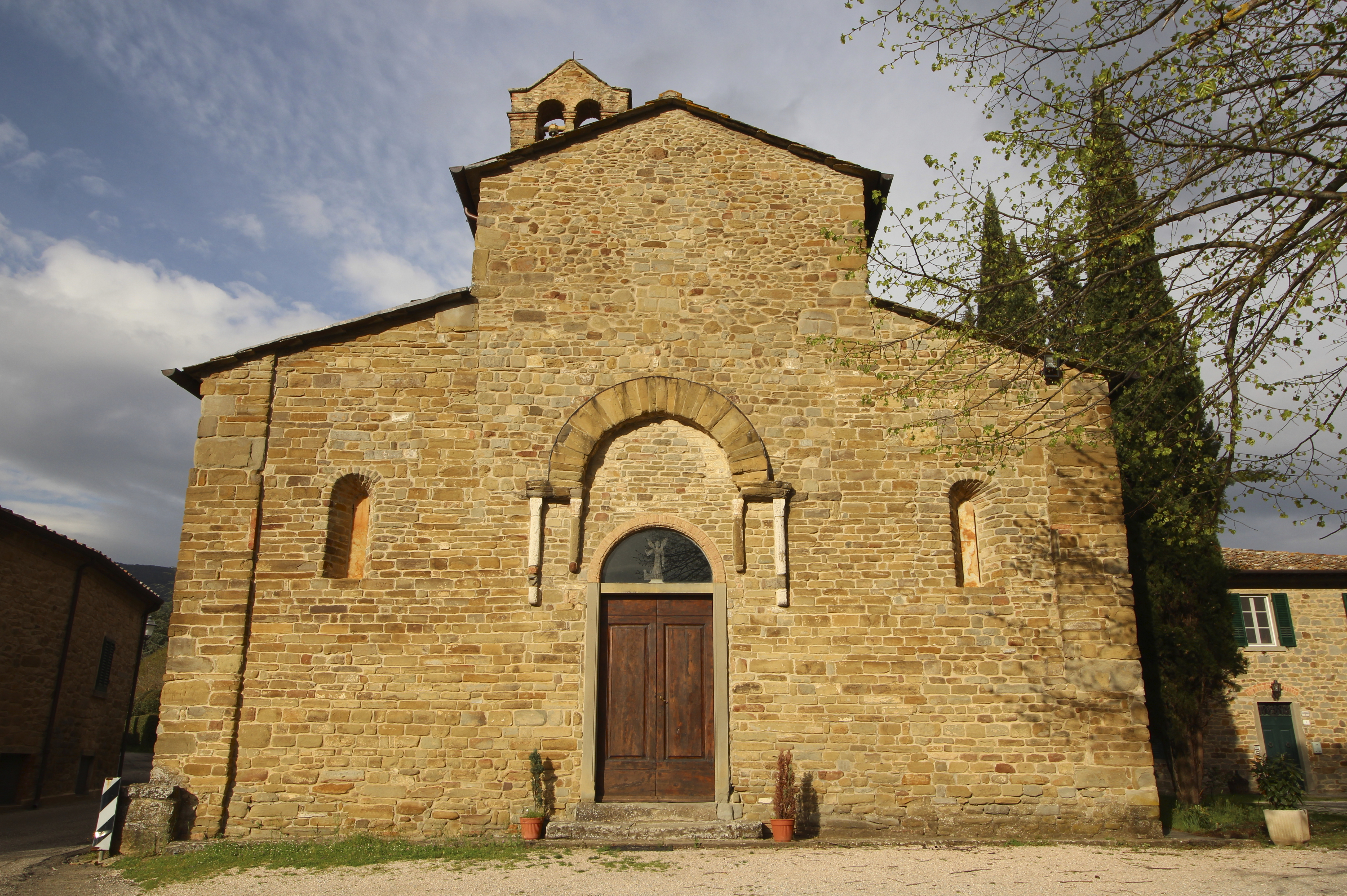 Church San Michele Arcangelo a Metelliano, Sant'Angelo, Metelliano, municipality of Cortona, Province of Arezzo, Tuscany, Italy